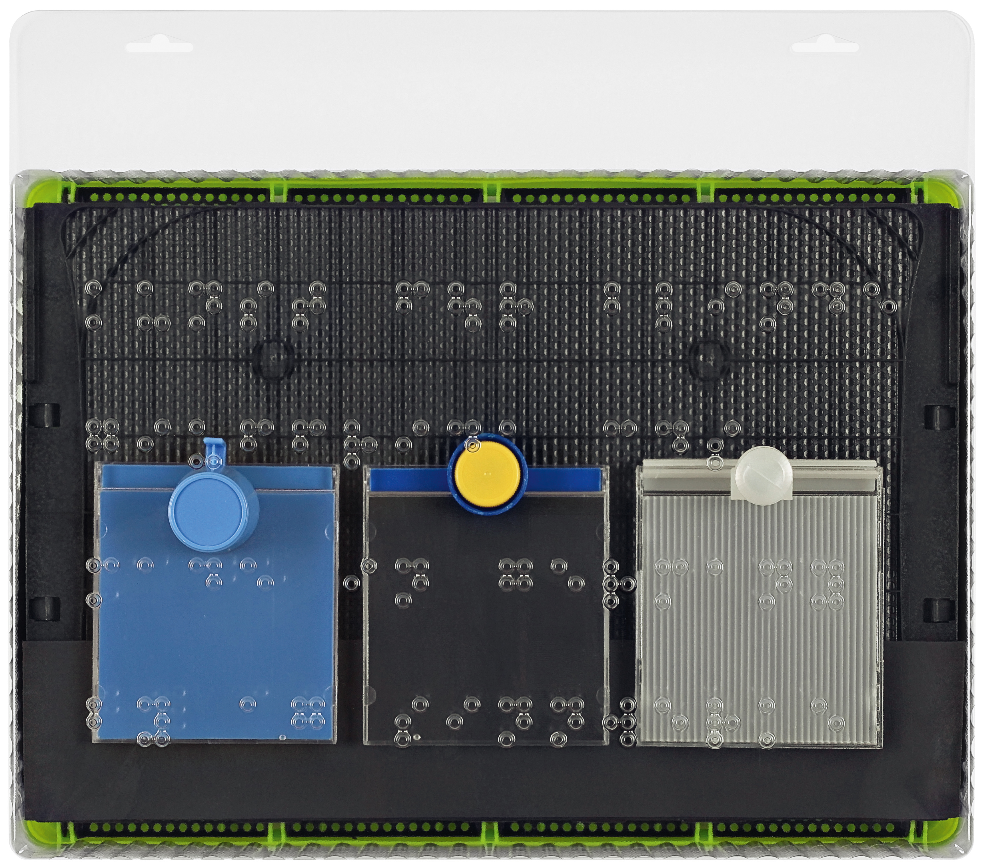 Alfio Giuffrida/AG Sinnwerke, CDs-P-Ident-No. 000 1010-10264 -6 2006, Kunststoff, Blisterverpackung, 45,5x50,5x10,5 cm